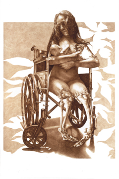 "Feeding", 2006, 36" x 54", iron oxide on paper, by Vincent Castiglia